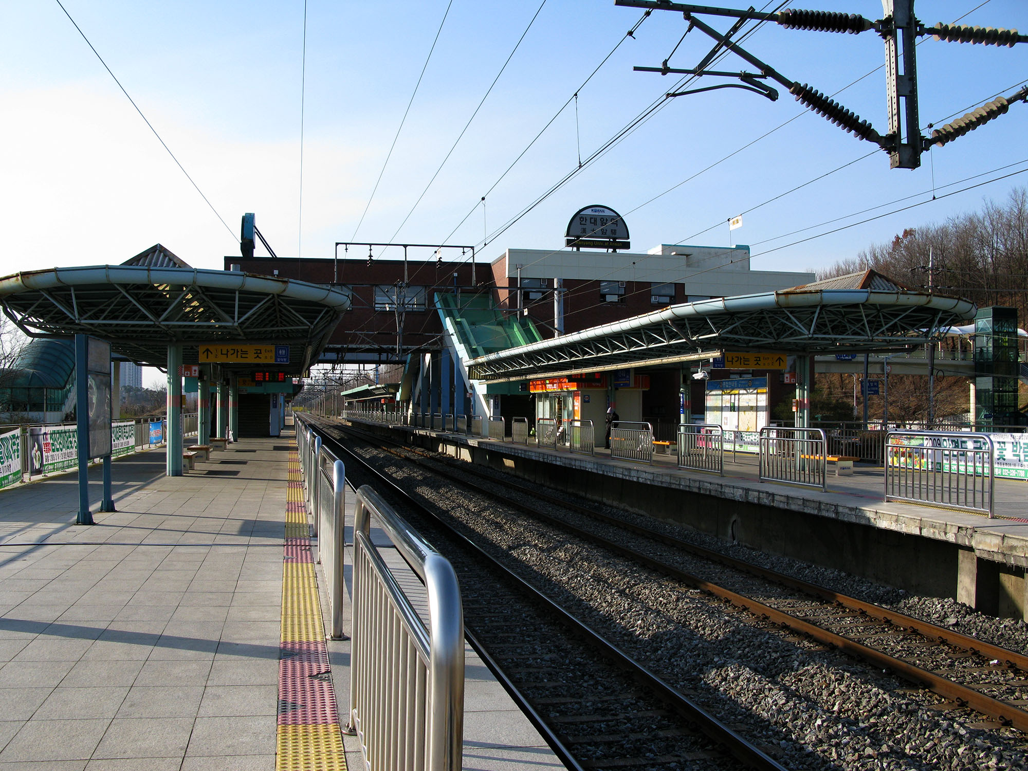 Seoul Subway Line 4 Hanyang University at Ansan Station Platform